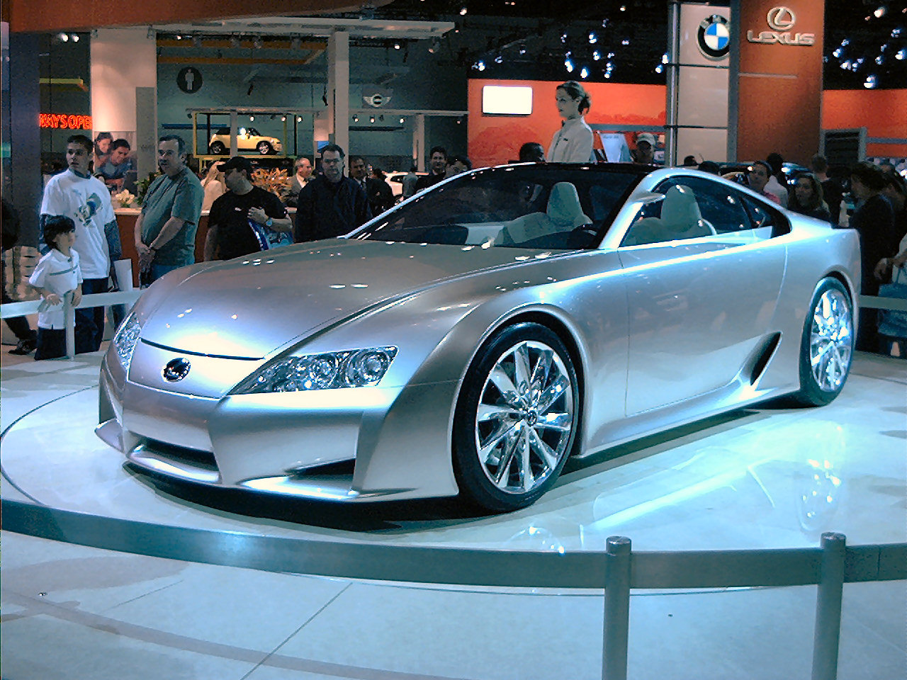 A picture of the Lexus LF-A concept car at the 2006 Greater Los Angeles Auto Show. (Photo taken by Covinan.